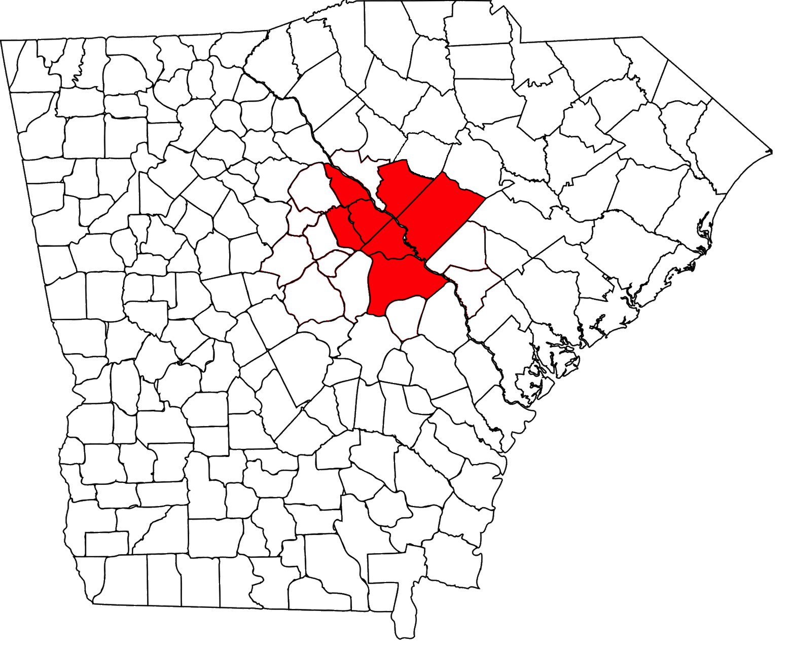 Counties contained in the Augusta-Richmond County, GA-SC Metropolitan Statistical Area.